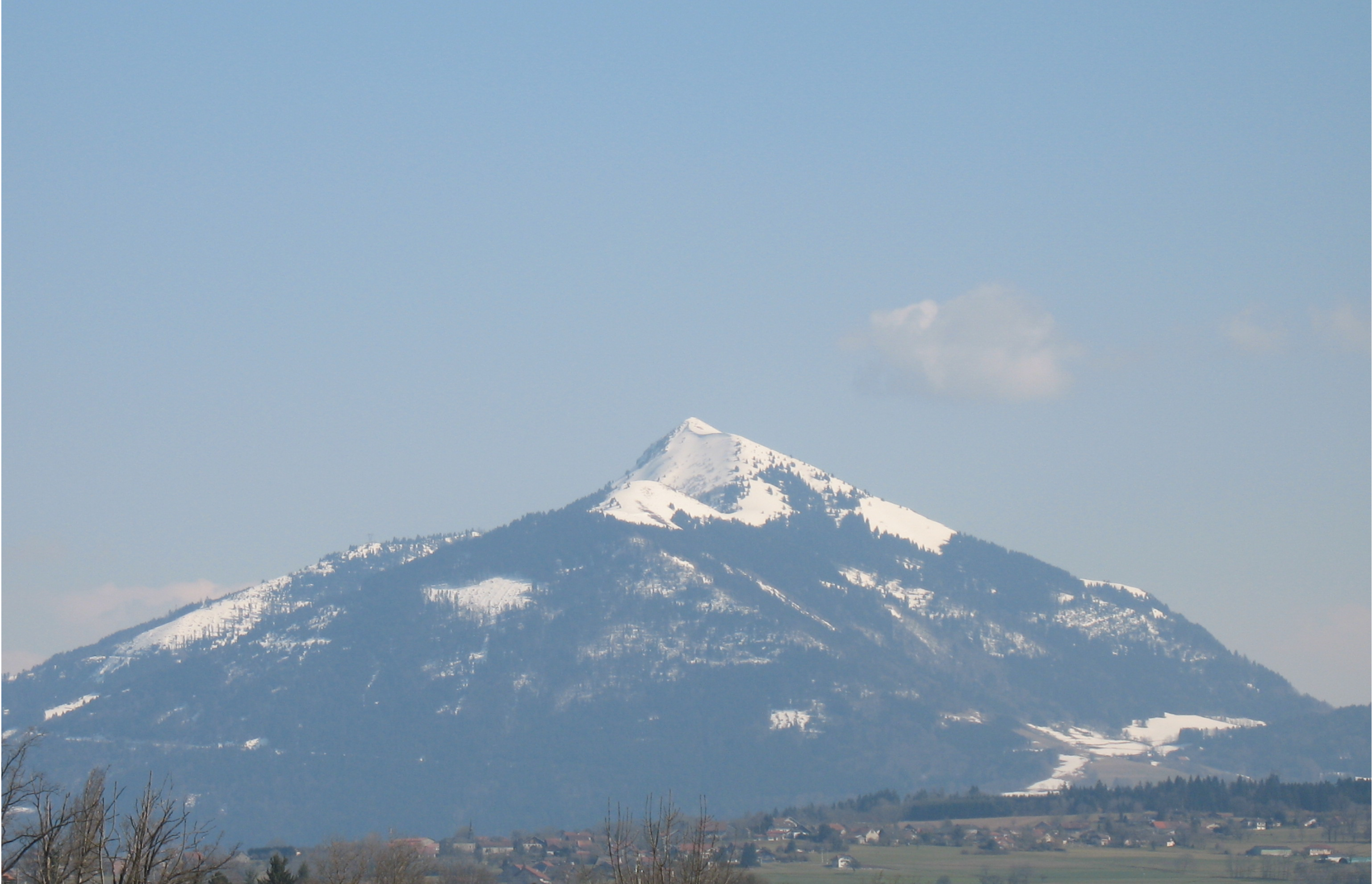 The moutain "Le Môle" in Haute-Savoie.